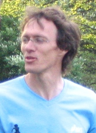 Dieter Baumann